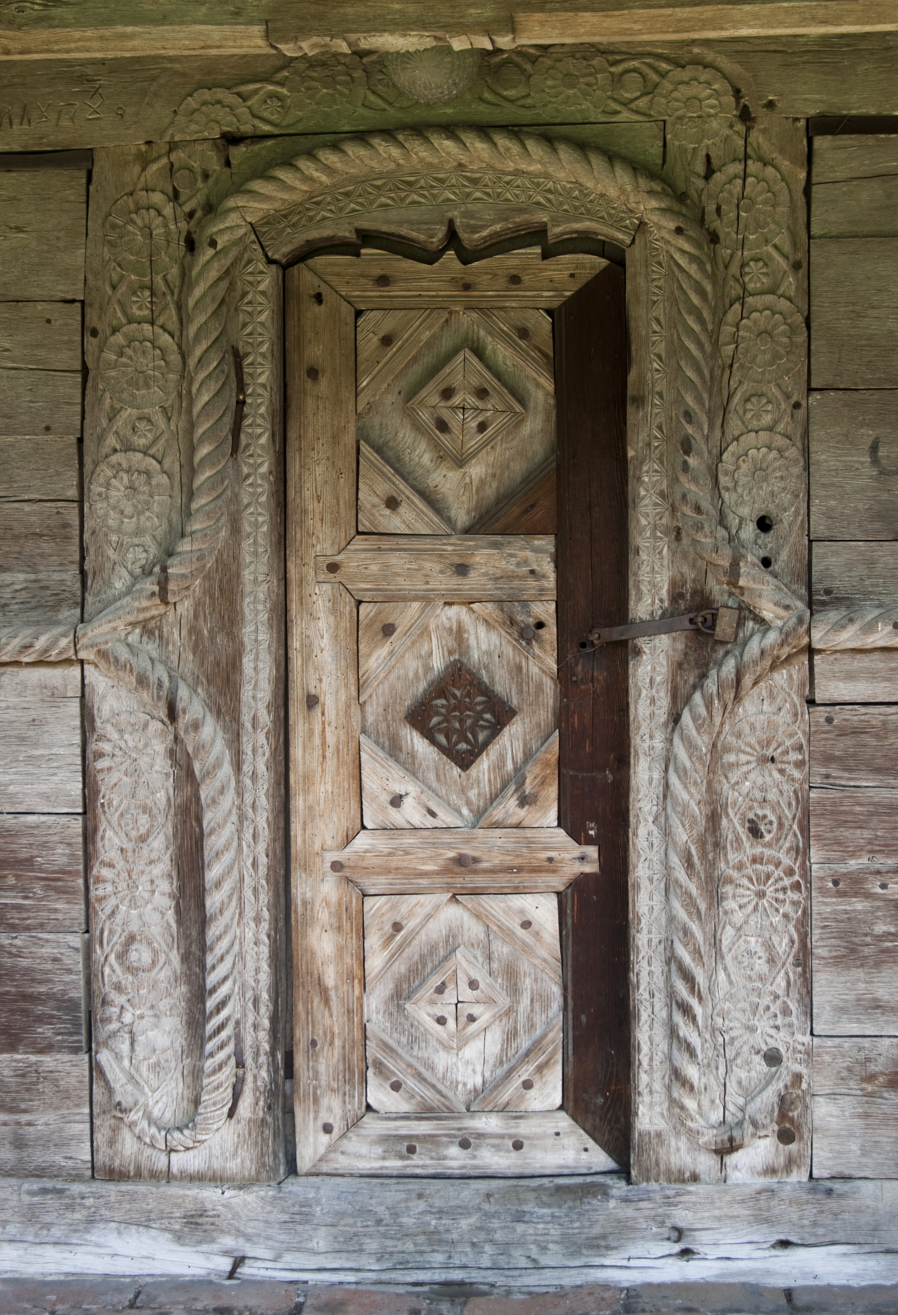 Slăvuţa, Gorj county, Romania: the wooden church, the entrance.